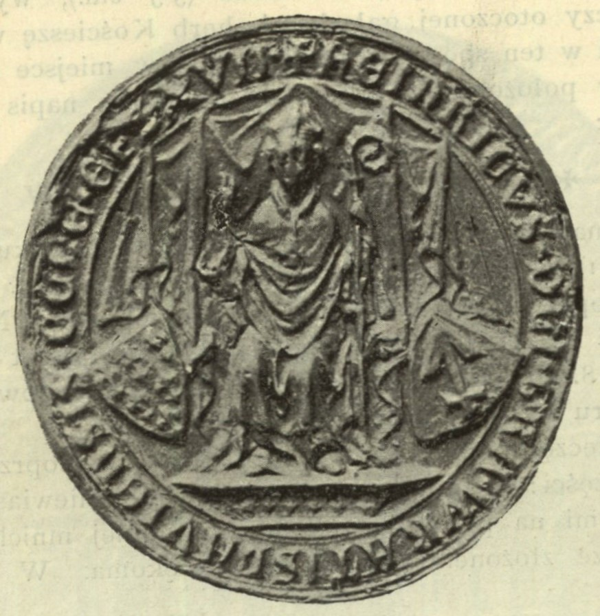 Henryk z Wierzbna seal